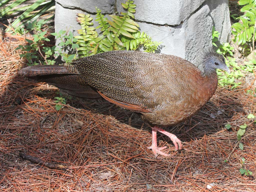 Great Augus (Argusianus argus) - Tampa's Lowry Park Zoo, Florida